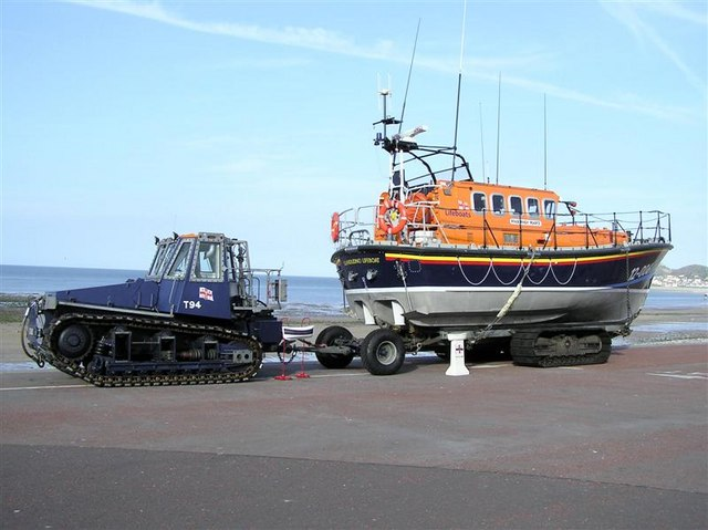 Llandudno Lifeboat. On display on the seafront